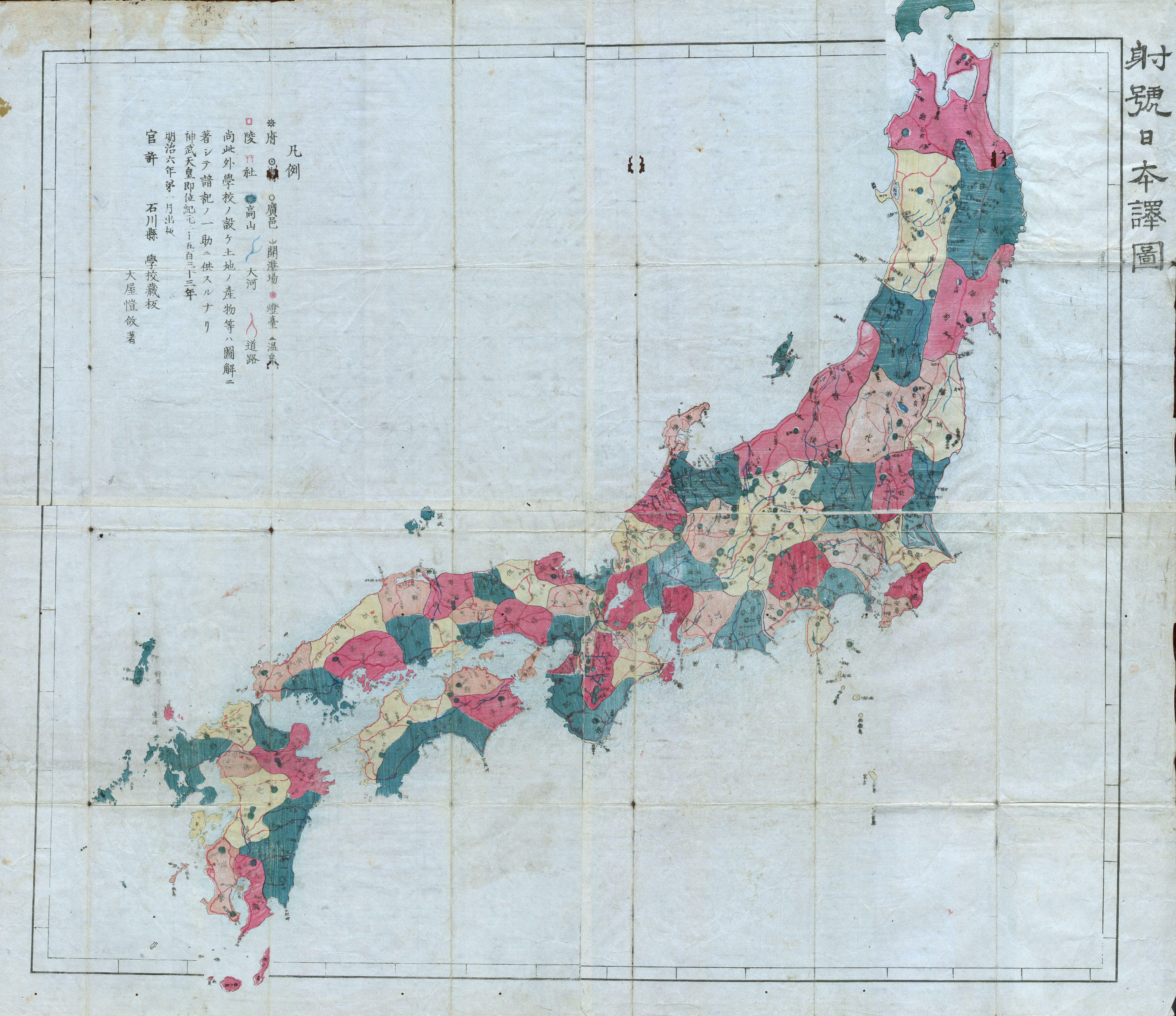 This very rare item is a hand colored Meiji Period woodcut map of Japan. Impressive size and detail. Produced in the late 19th century Japanese woodcut style, this map is a rare combination of practical and decorative. All text in Japanese. A fine example from the Meiji period of Japanese cartography and an very rare piece.